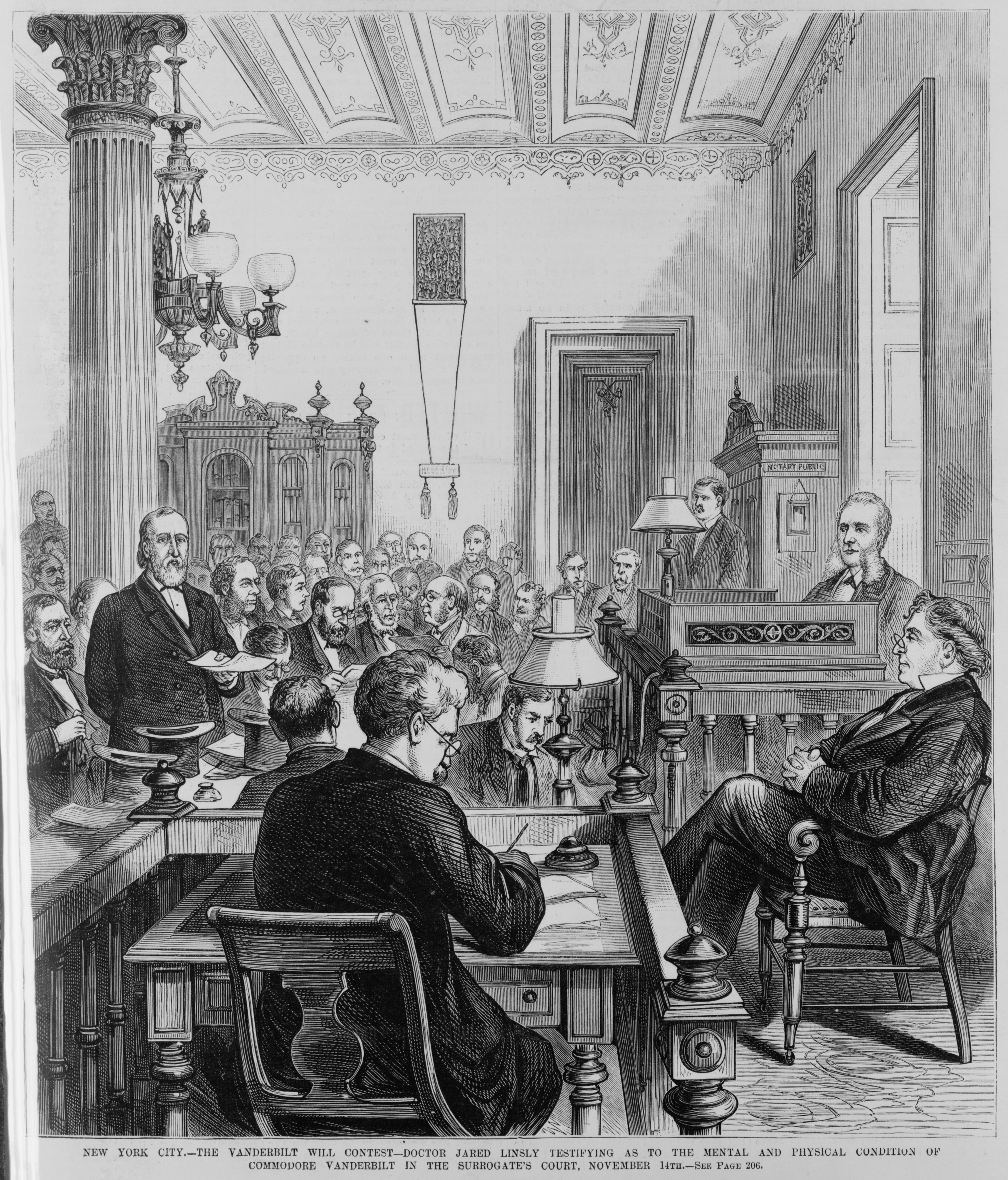 Dr. Jared Linsly testifying as to the mental and physical condition of Cornelius Vanderbilt in Surrogate's Court, during a challenge to Vanderbilt's will.